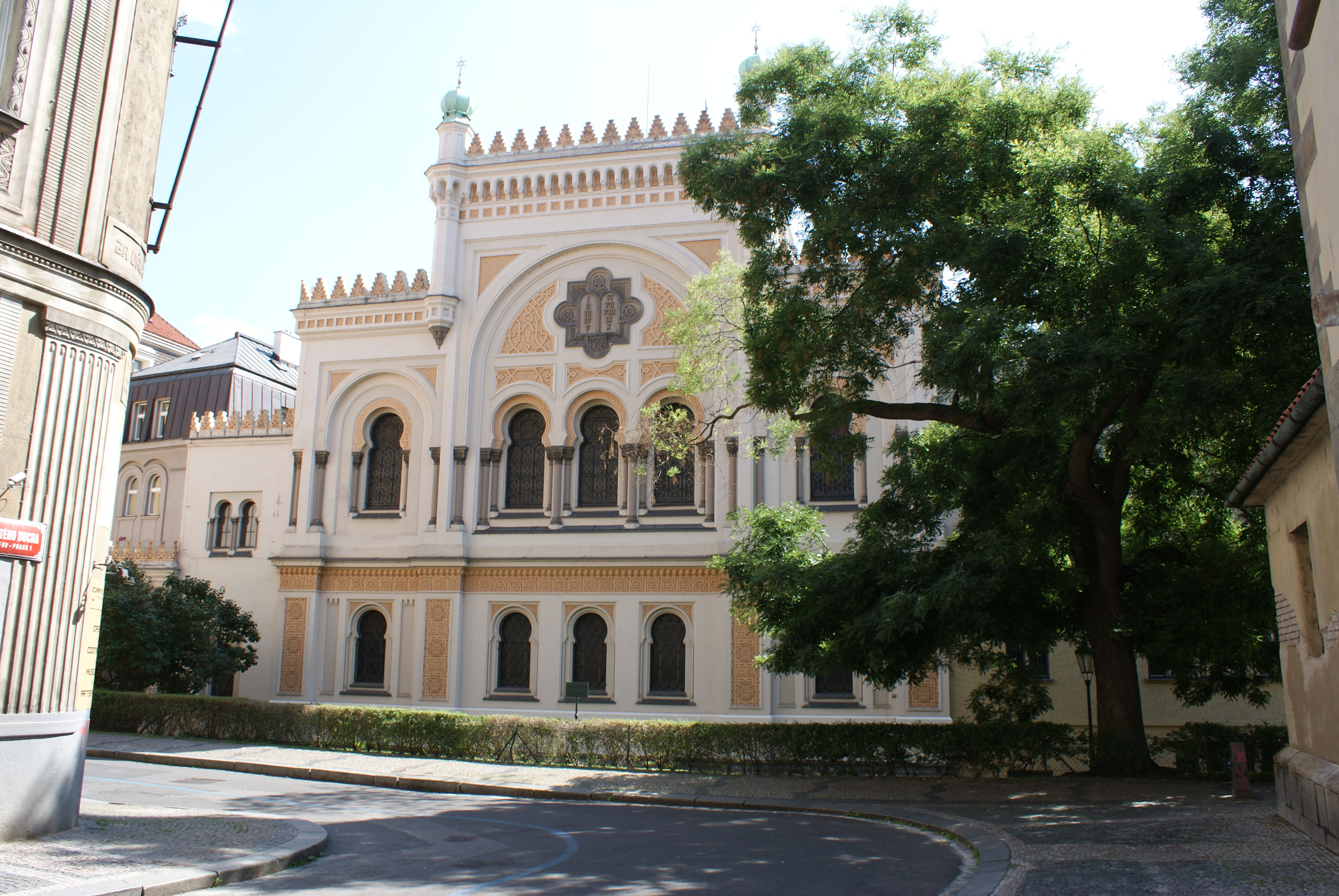 Spanish Synagogue in Prague, Czech Republic